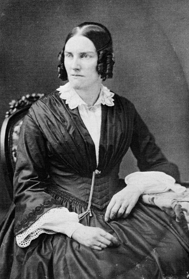 Sophie Madeleine du Pont (1810 - 1888), wife of U.S. naval officer Samuel Francis du Pont. Photograph by Mathew Brady (1823-1896), unknown date. Original print in possession of Eleutherian Mills Historical Library.